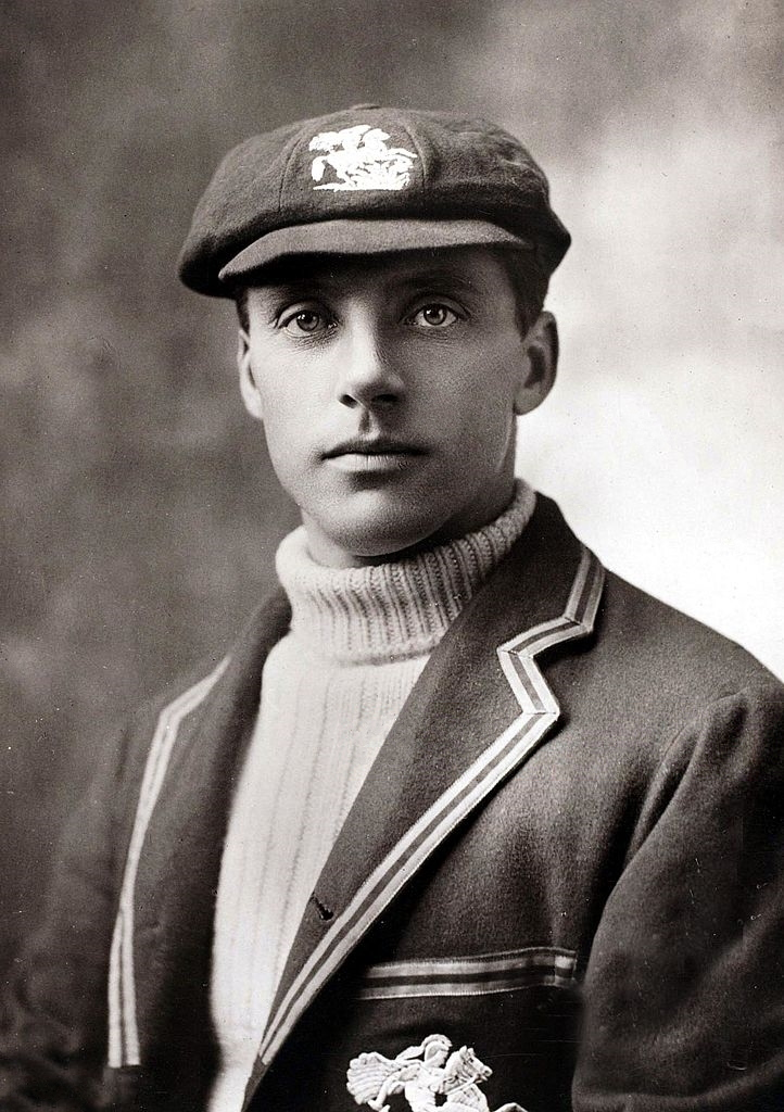 Sport. Cricket.Postcard. Circa 1910. Herbert Strudwick, Surrey